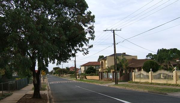 A photo of a streetscape in Mansfield Park. Taken by Blnguyen on April 2, 2006